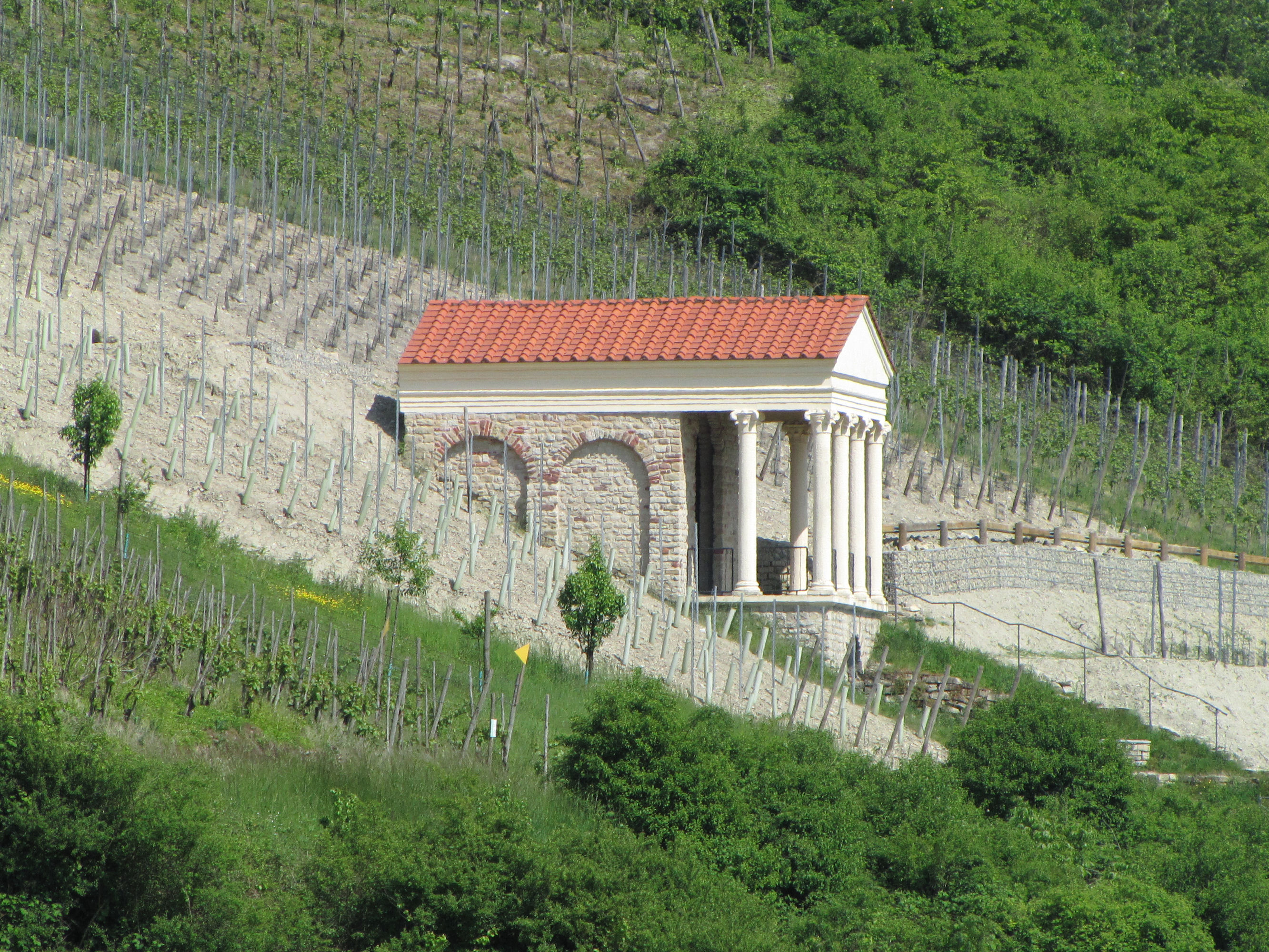 Ancient Roman mausoleum nearby Igel/Mosel